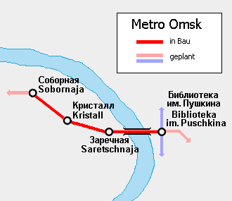 Map of the Omsk Metro, German transcription and labeling